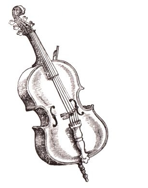 A woodcut of an early five-string bass violin, from Michael Praetorius' Syntagma musicum.